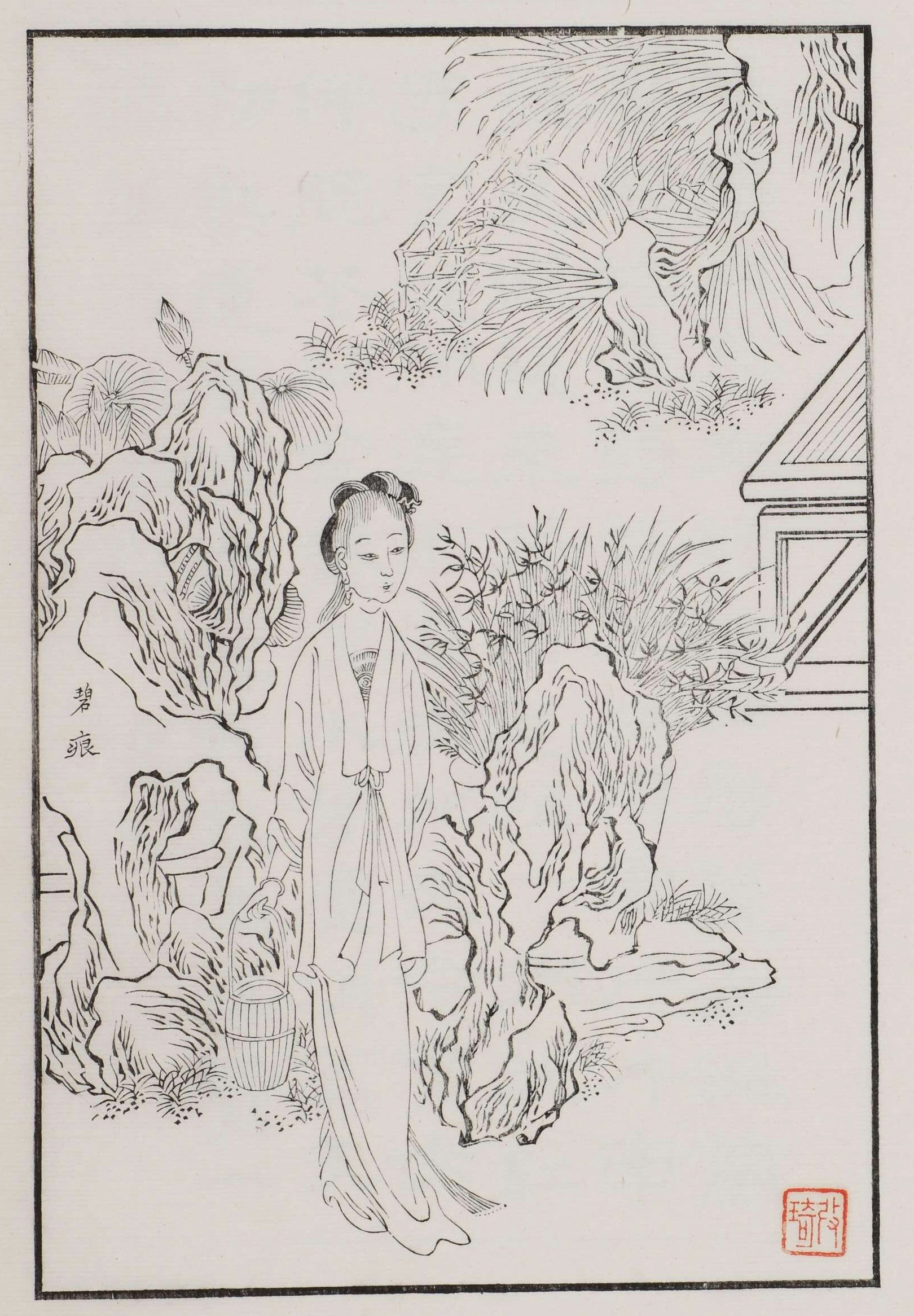 bì hén